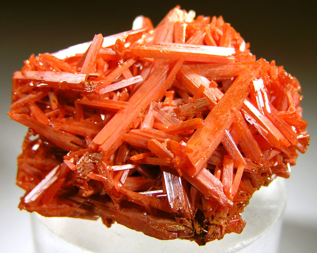 Crocoite Locality: Dundas mineral field, Zeehan district, Tasmania, Australia (Locality at ) A solid haystack of bright red-orange crystals to 1.8 cm. Beautiful! 3.9 x 3.4 x 1.9 cm